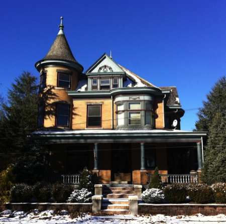 The home of Walter O. Snelling, the scientist who first identified propane, in Allentown, Pennsylvania.